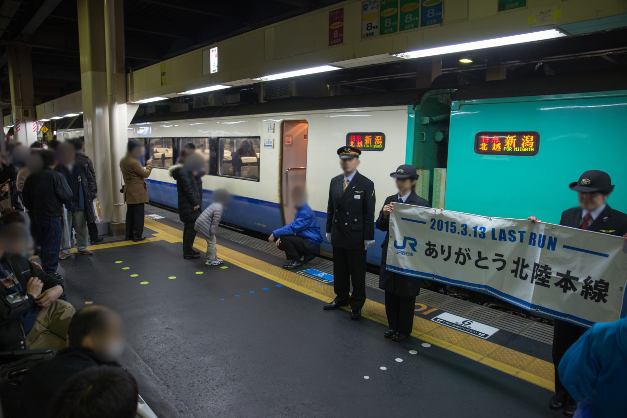 A JR East 485-3000 series EMU at Kanazawa Station on the final Hokuetsu 9 service to Niigata